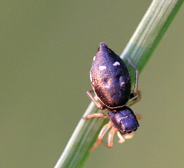 probably Heliophanus cupreus, female.